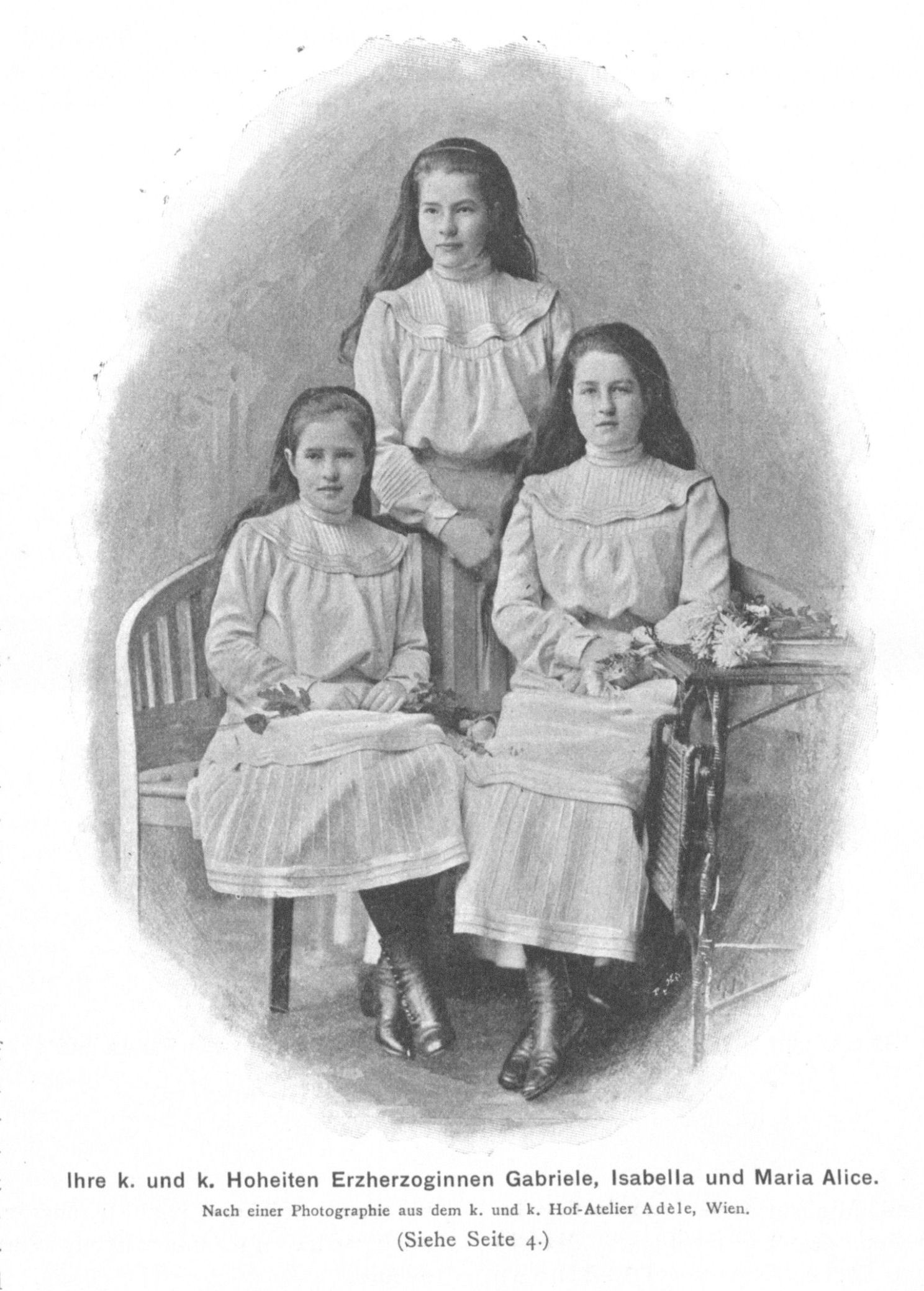 Triple portrait of little archduchesses of Austria: Gabriele (1887-1954), Isabella (1887-1973) and Maria Alice (1893-1962) in 1903.